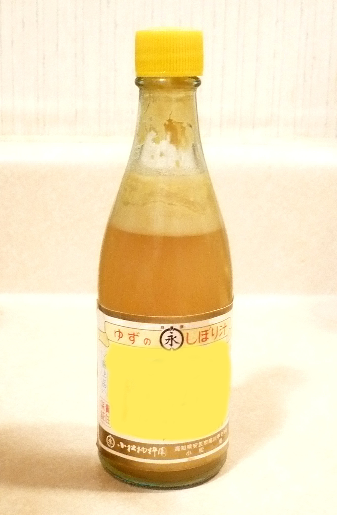 A small bottle of commercially produced yuzu vinegar. According to the package, the Mitoku brand yuzu vinegar is made by the Komatsu Yuzusui company in very small batches using only the finest "yuuki" grown yuzu, a rare Japanese citron juice. Wonderful as an addition to salad dressing, or used to make home-made ponzu or sudachi sauces. Also perfect in cooking yudofu (simmered tofu), a satisfying cold weather dish or added to miso to make a refreshing yubeshi tasting miso. High in Vitamin C. Ingredients: Japanese yuuki-grown yuzu juice, sea salt. Product of Japan. Imported by Natural Import Co., Biltmore Village, North Carolina. Purchased at the Food Co-op in Cleveland, Ohio. Photo taken in Kent, Ohio.